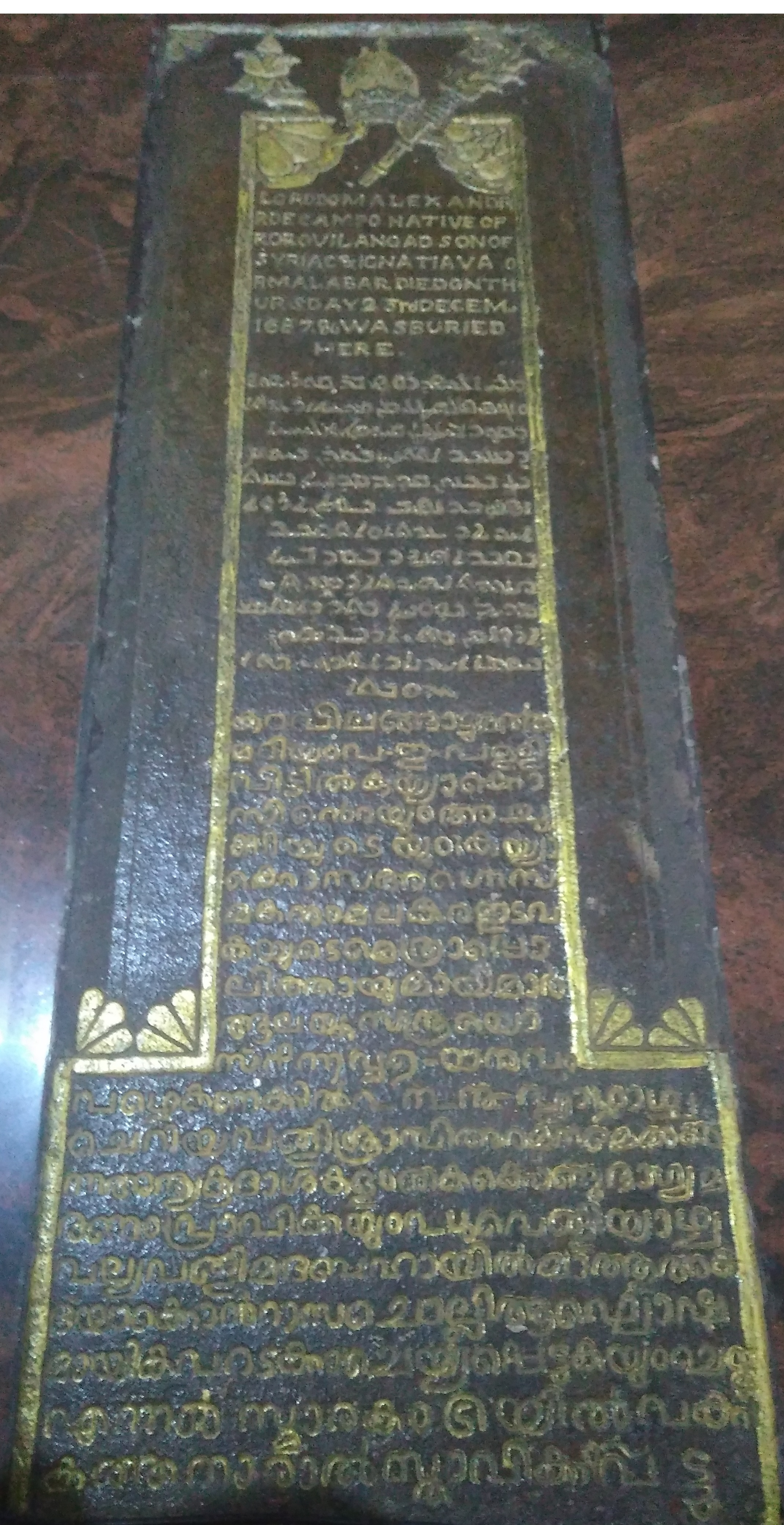 Tomb of Palliveettil Mar Chandy Metropolitan and Gate of All India inside the Madbaha of Marth Mariam Syro-Malabar Church, Kuravilangad.